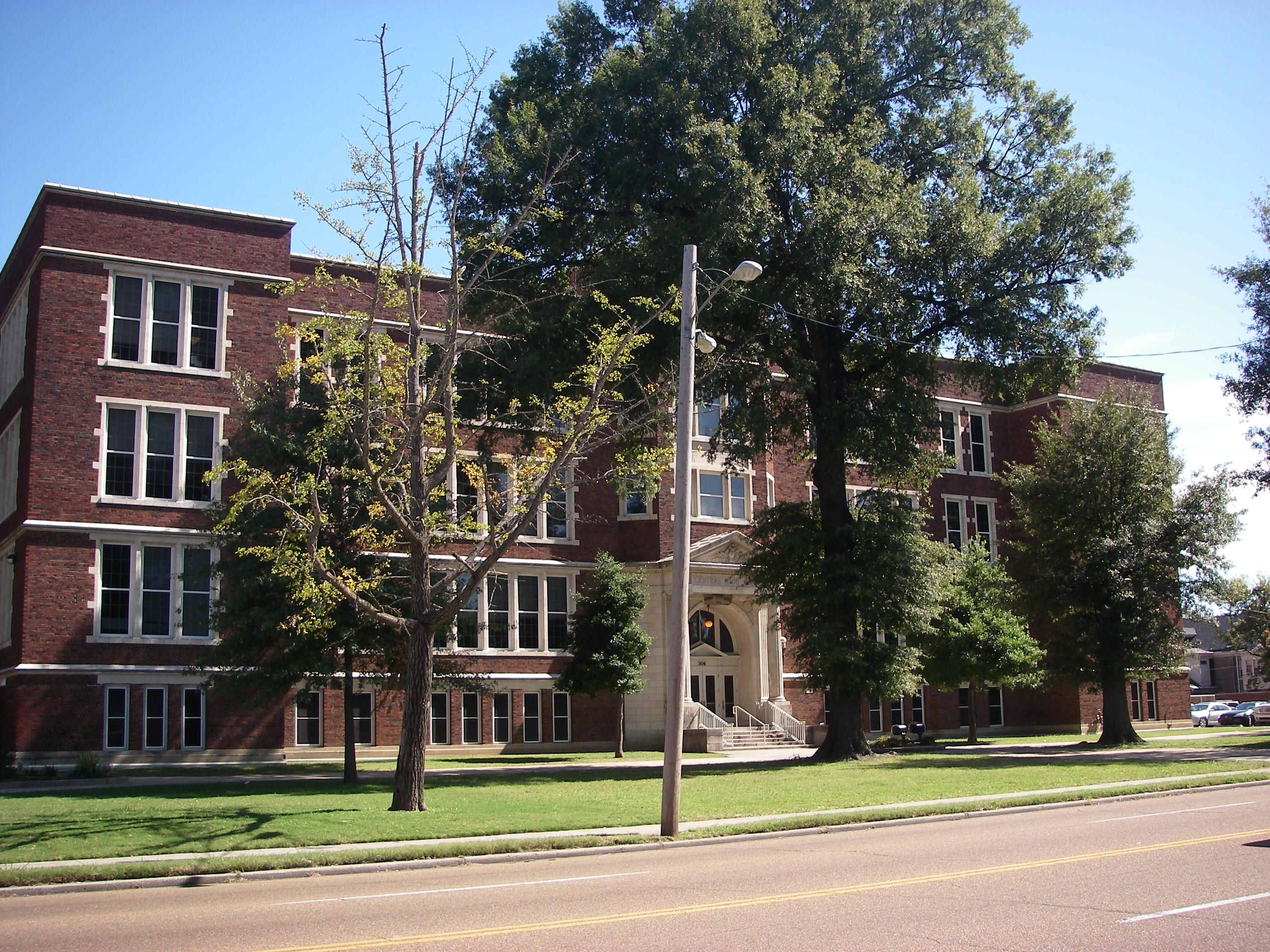 I personally took this pict.